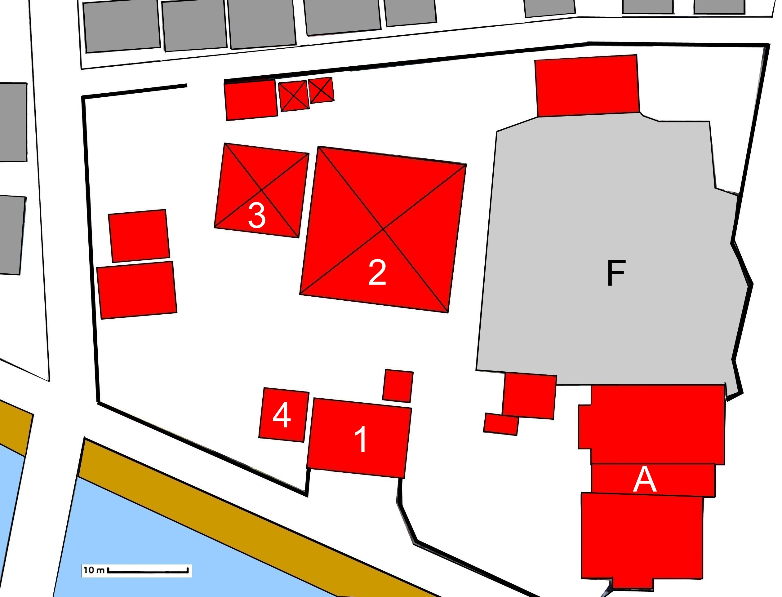 Layout of Komyo-ji (Kaname Kannon) at Hiratsuka, Japan